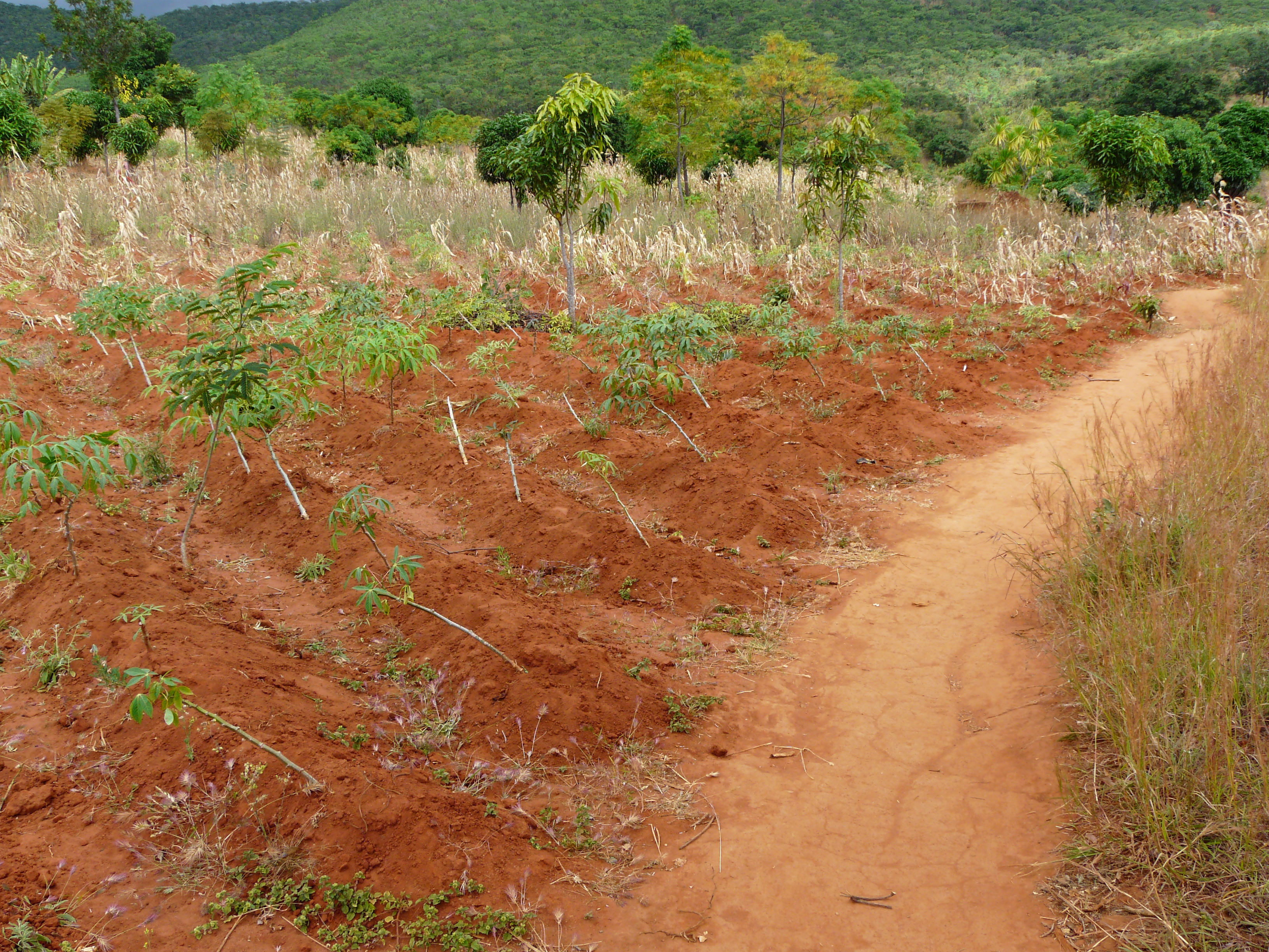 Agriculture the Ruvuma Region, southern Tanzania